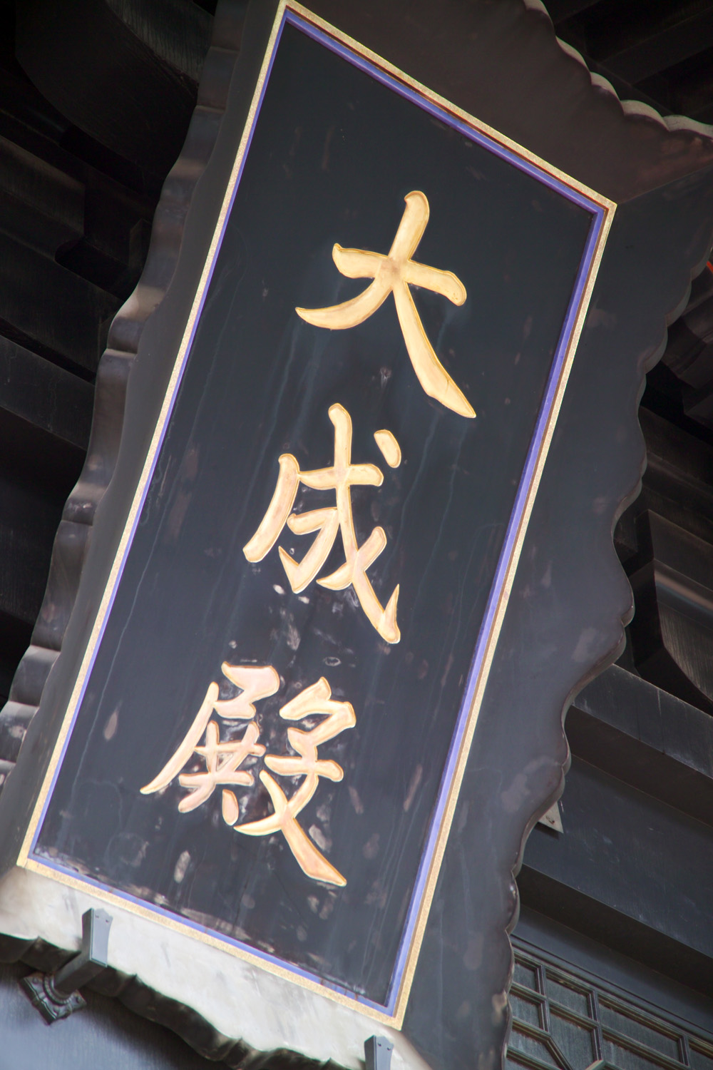 Yushima Seido Confucian temple Bunkyo-ku Tokyo, Japan I contribute my rights in this photo to the public domain.